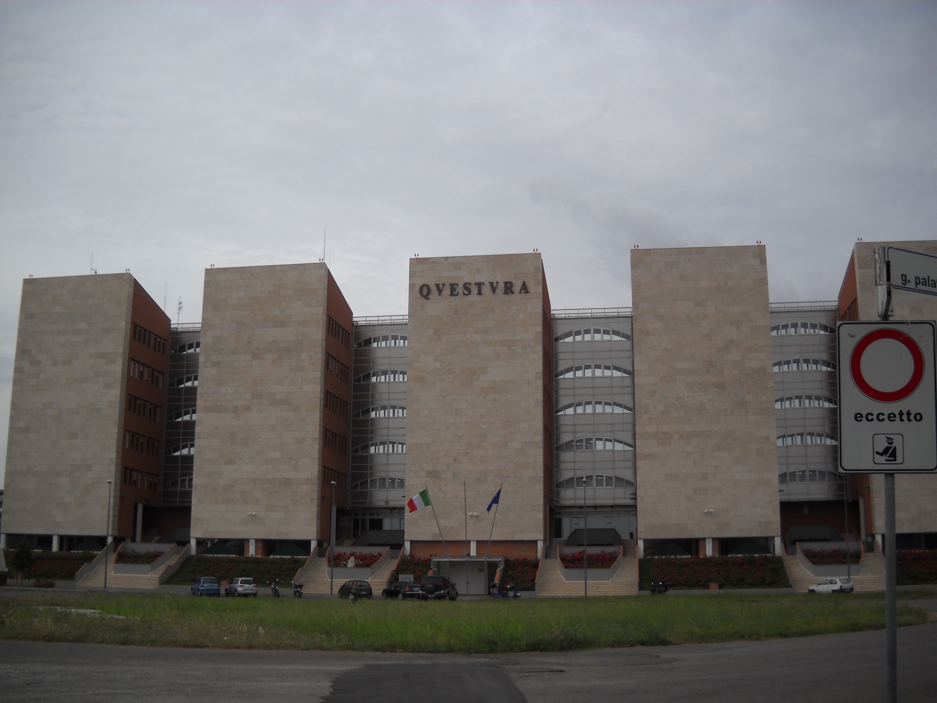 New Questura of Grosseto